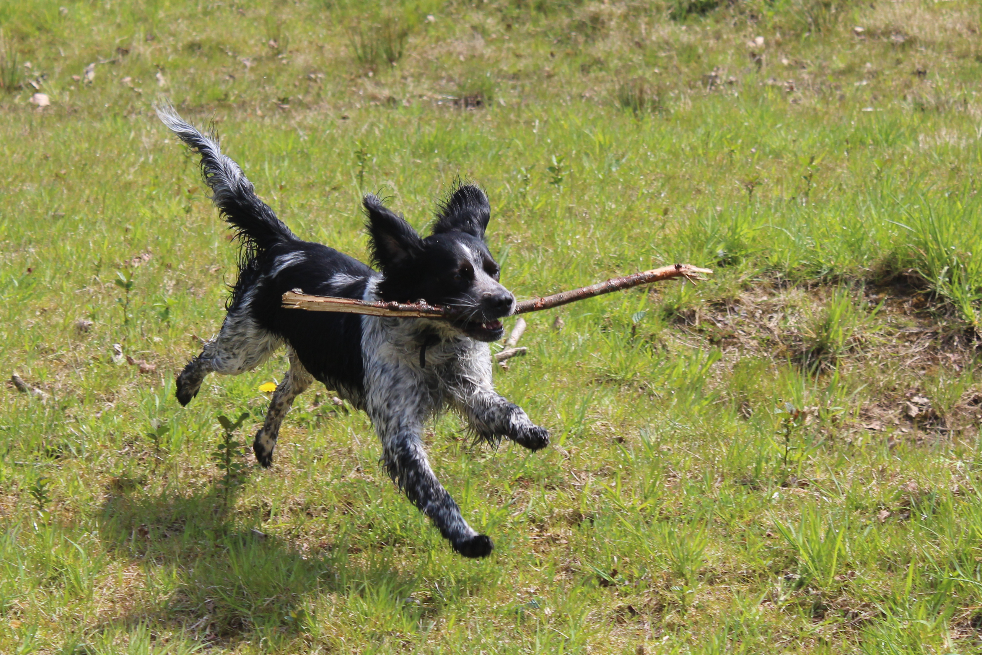 Dog fetching.